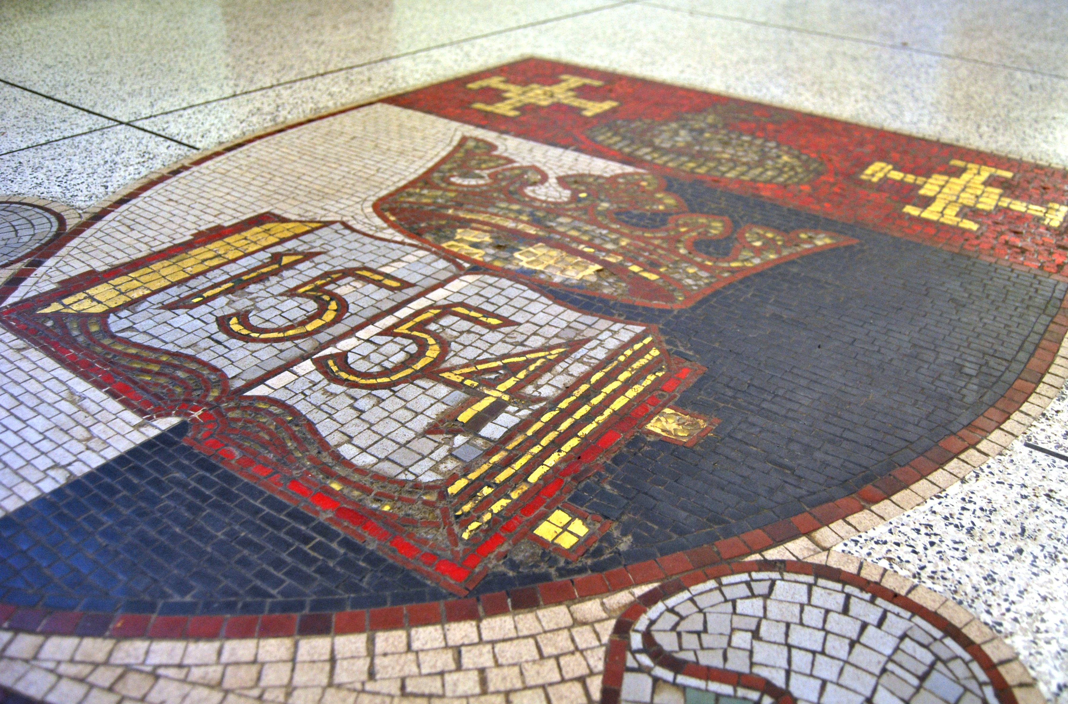 Derby School Entrance Mosaic close up - now in Derby Moor ...